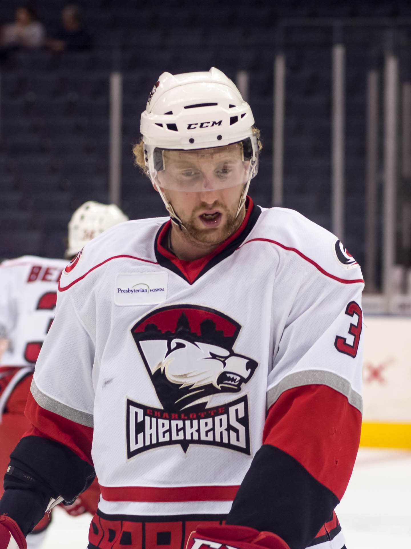 Justin Krueger of the Charlotte Checkers